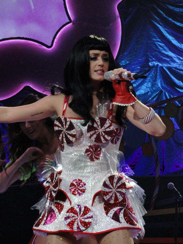 Katy Perry performing live in Seattle, WA in July 2011